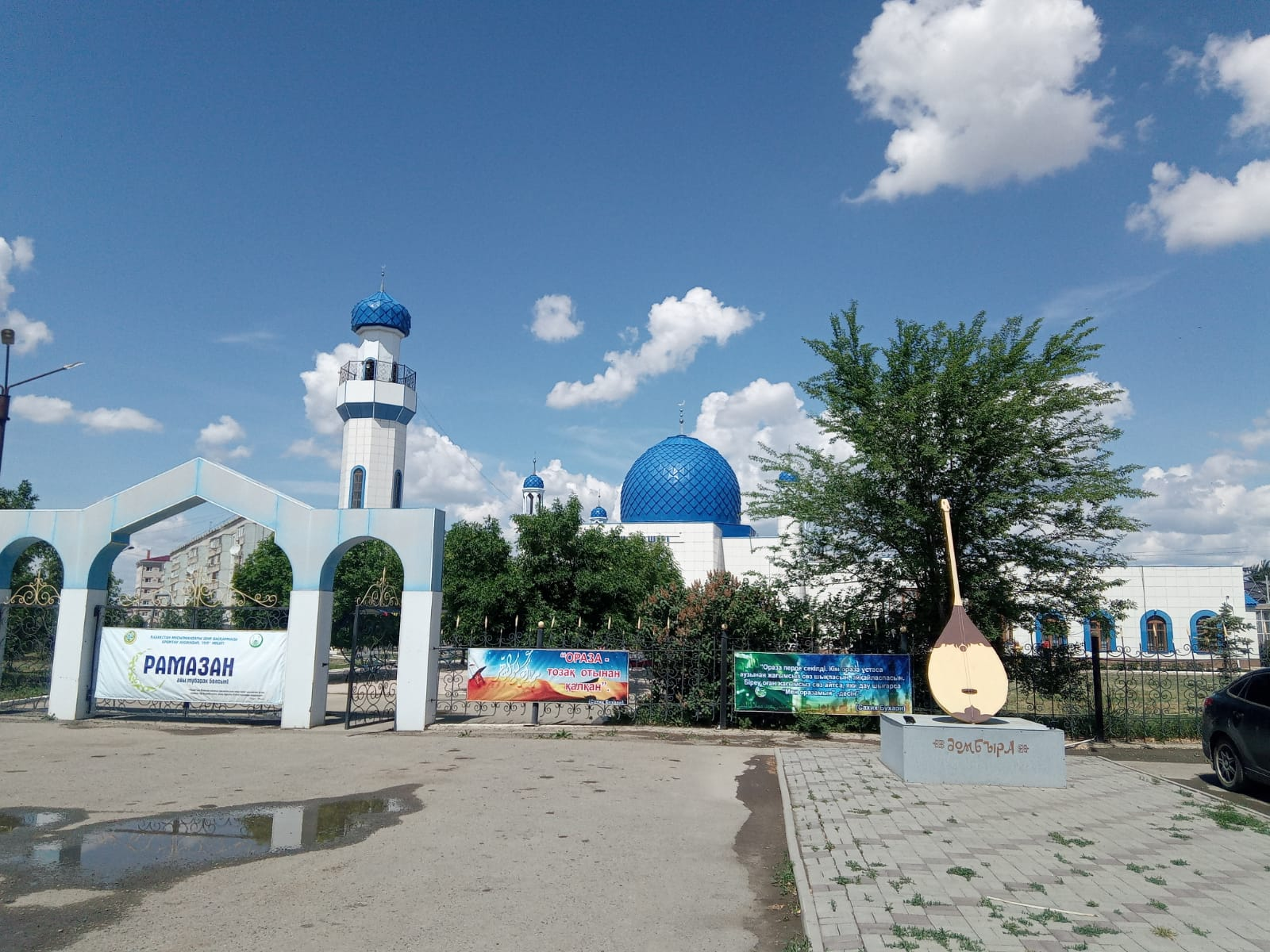 meczet Chromtau 2019